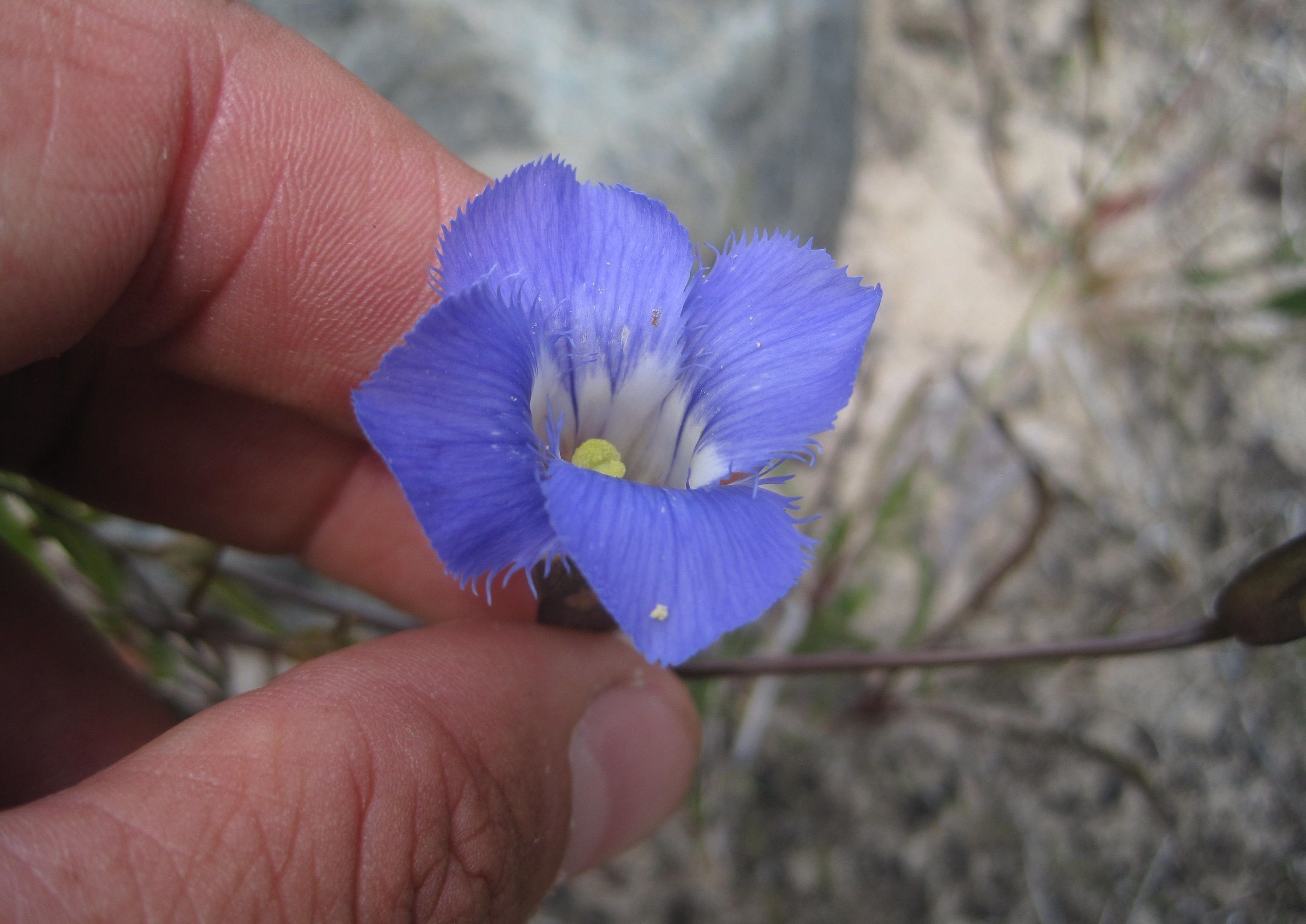 Gentianopsis virgata at Misery Bay, Manitoulin Island, Ontario, Canada